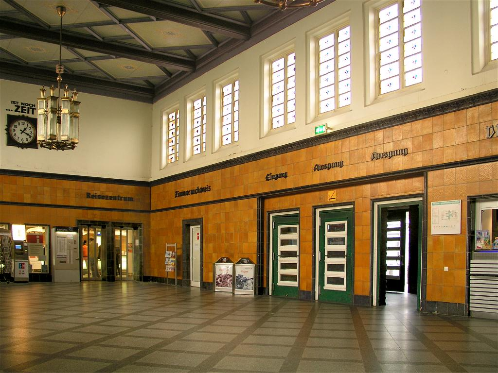 Westerland/Sylt (Slesvic-Holstein, Germany), station concourse, photo 2008